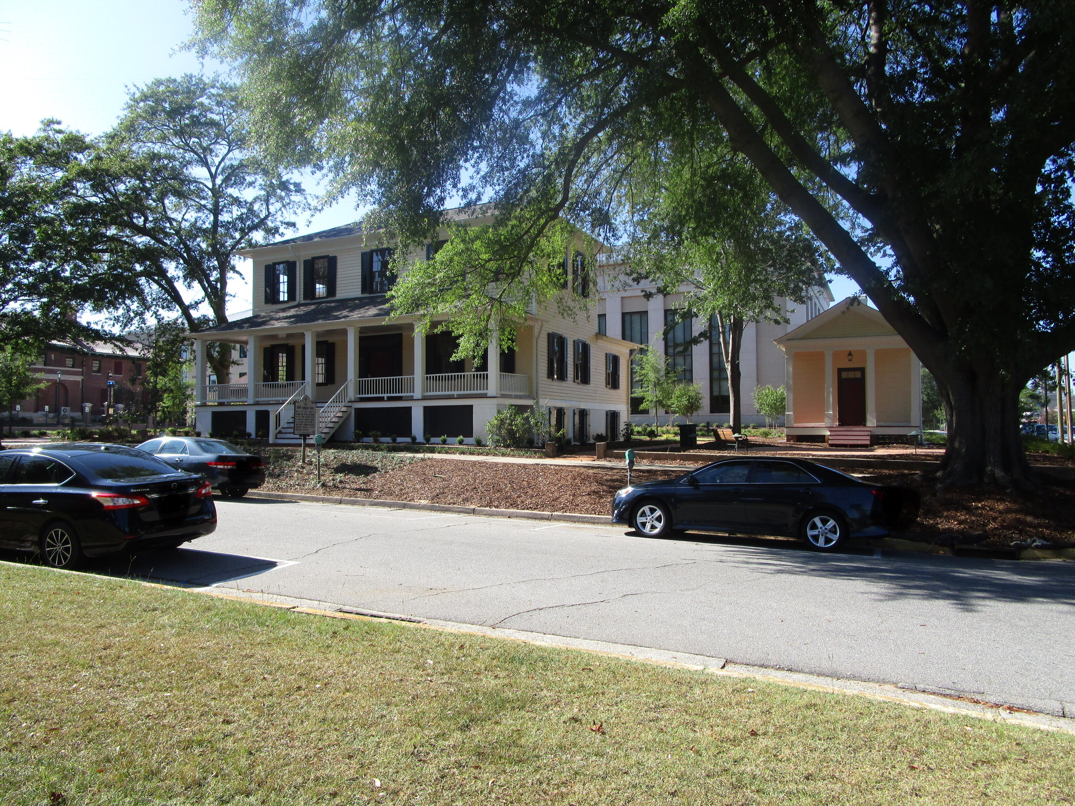 Two story, late Federal Style, modified I-House type; features rabbit edged siding, a hip roof and interior chimneys. A one-story balustraded porch supported by square columns. Shudders on front windows are half paneled (top) and half louvered (bottom). Unidentified outbuilding is on the right.